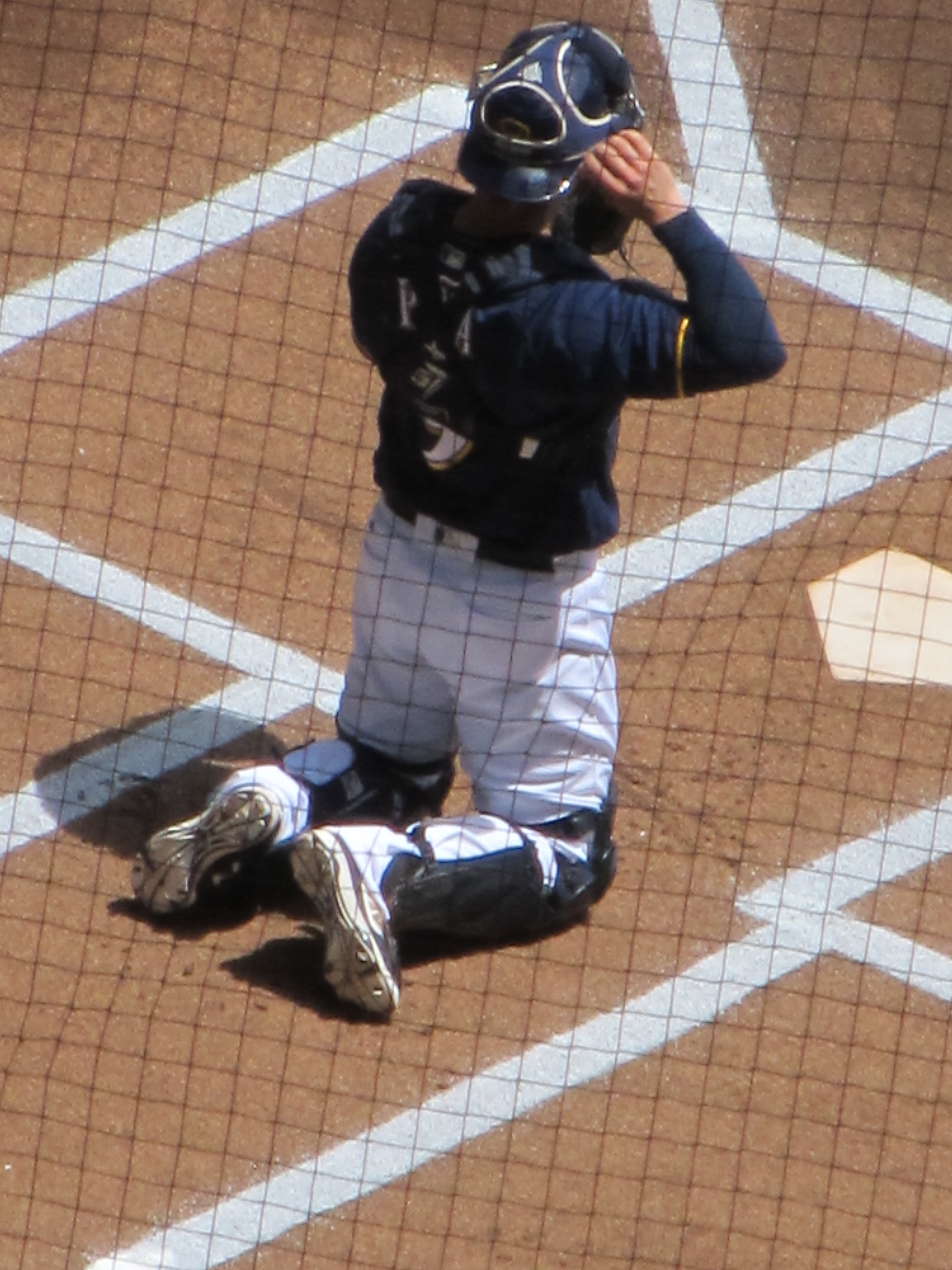 Manny Pina gets set behind home plate before the first inning of a June 2017 game.